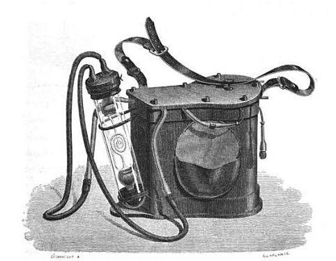 Early portable electric lamp (ca. 1860) which science fiction author Jules Verne called the "Ruhmkorff lamp", but which was actually invented by Frenchmen Alphonse Dumas and Dr. Camille Benoît, for use by miners.